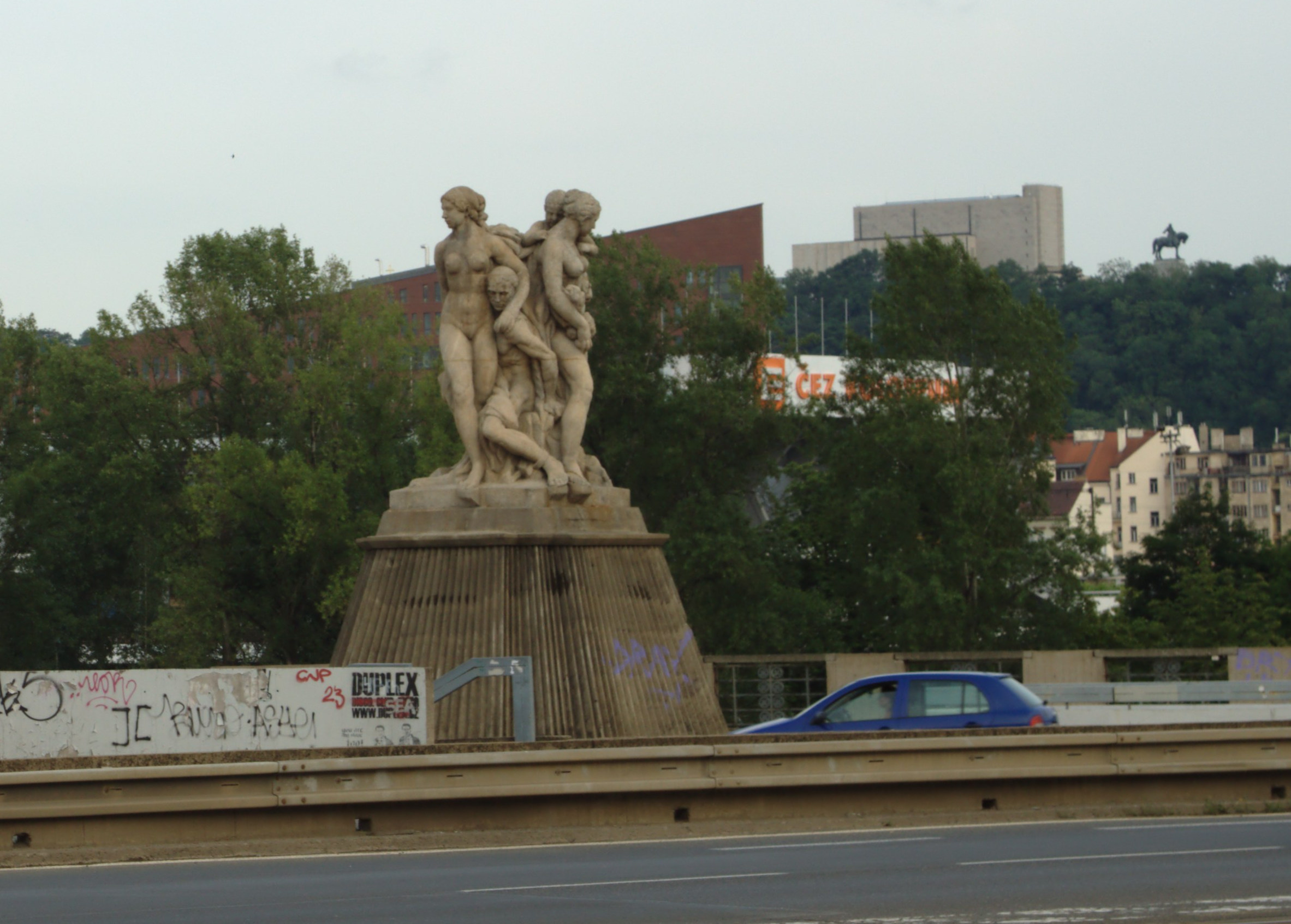 Statues at the nothern part of Hlávkův most Bridge, Prague, CZ